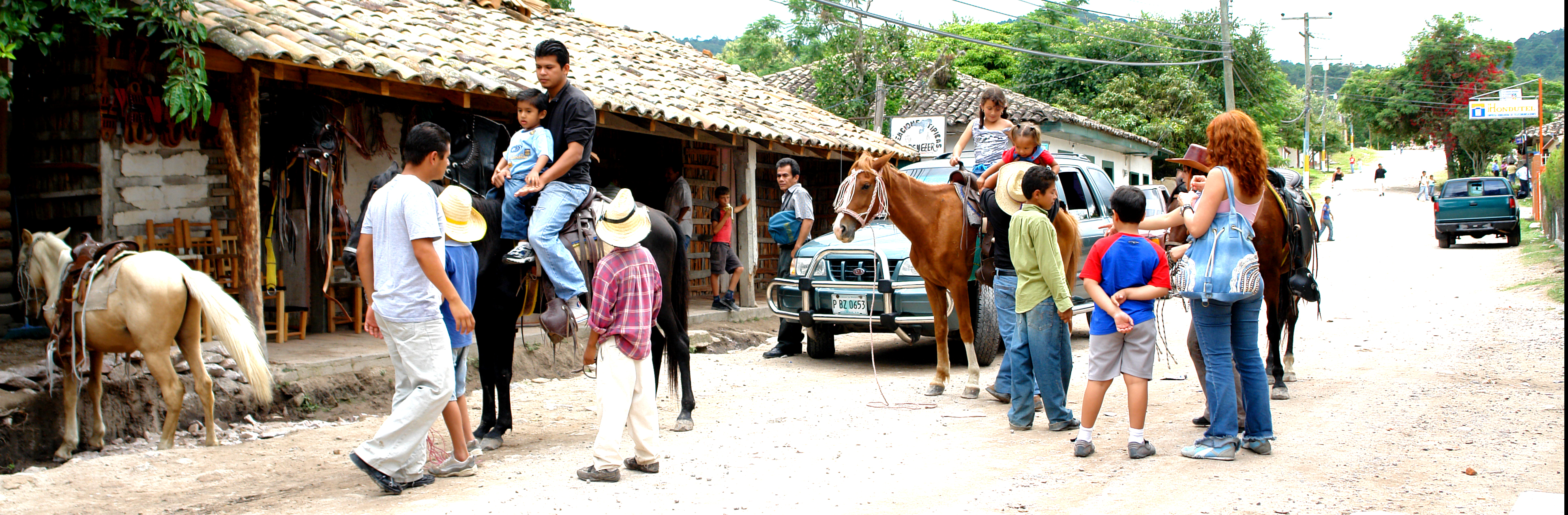 Street in Ojojona, Francisco Morazán Department, Honduras.